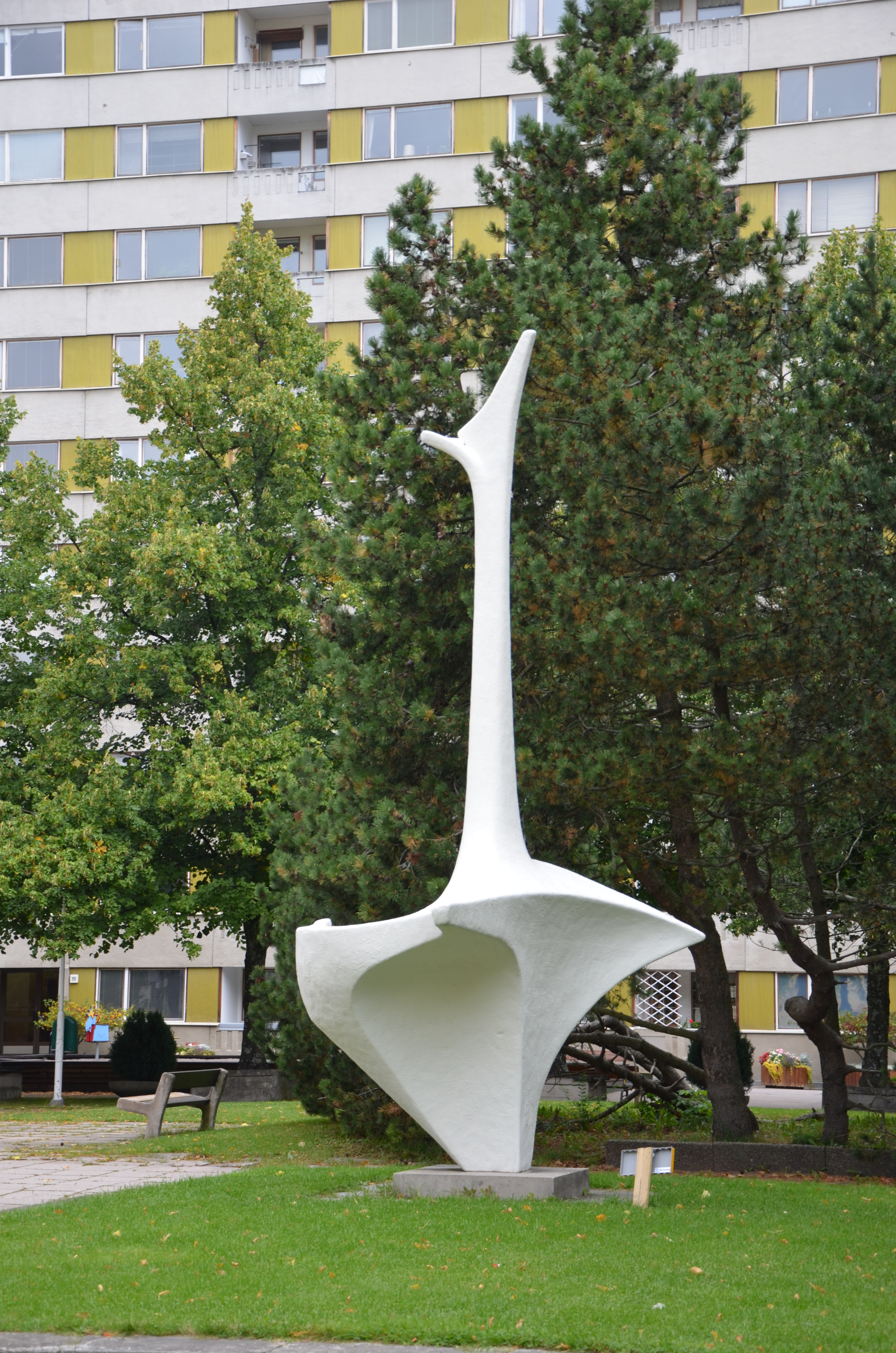 Bengt Amundins Dafnes förvandling, Radarvägen i Hägernäs i Täby kommun, plast, 1962